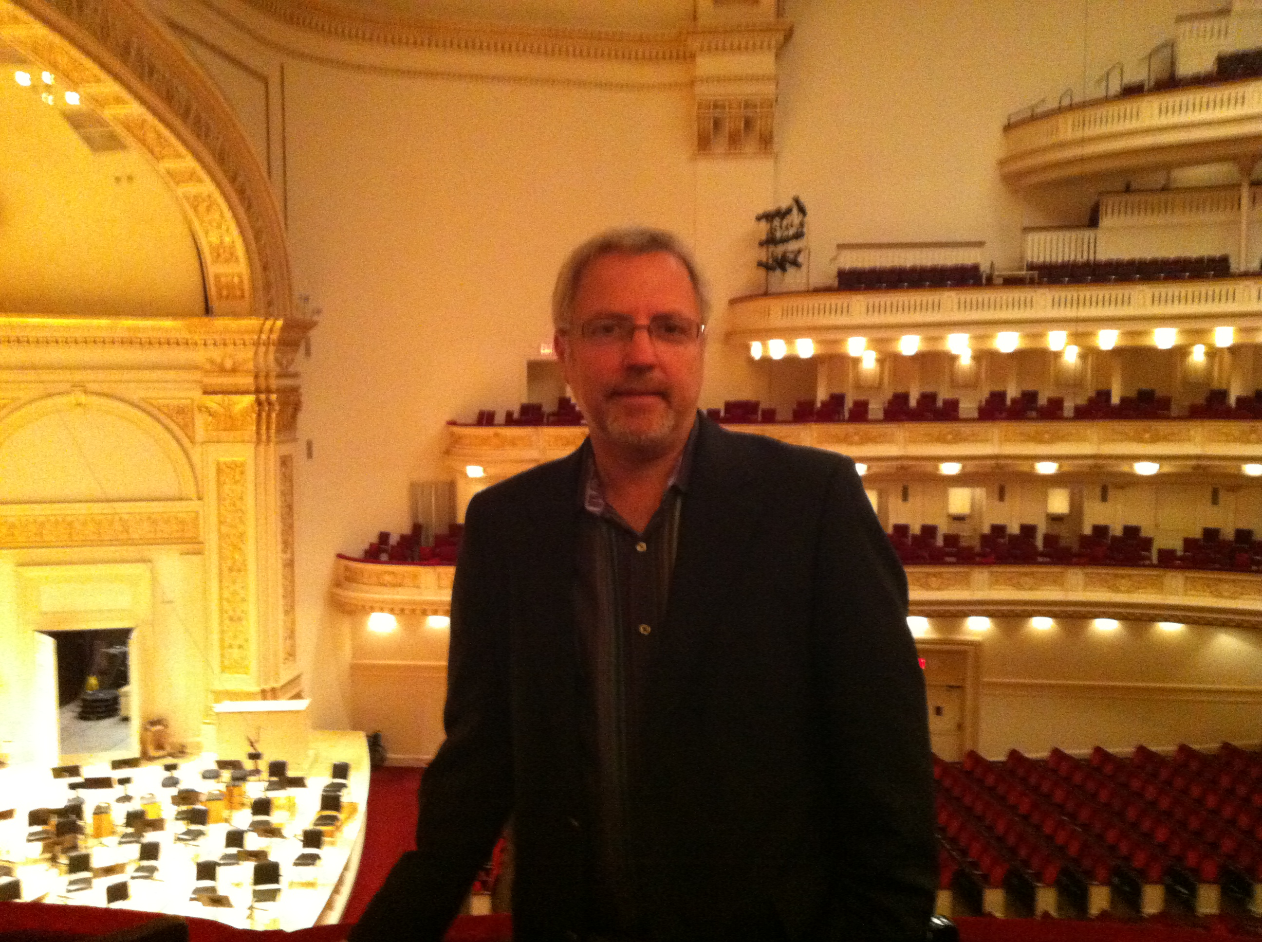 Composer-Guitarist James Lentini in Carnegie Hall